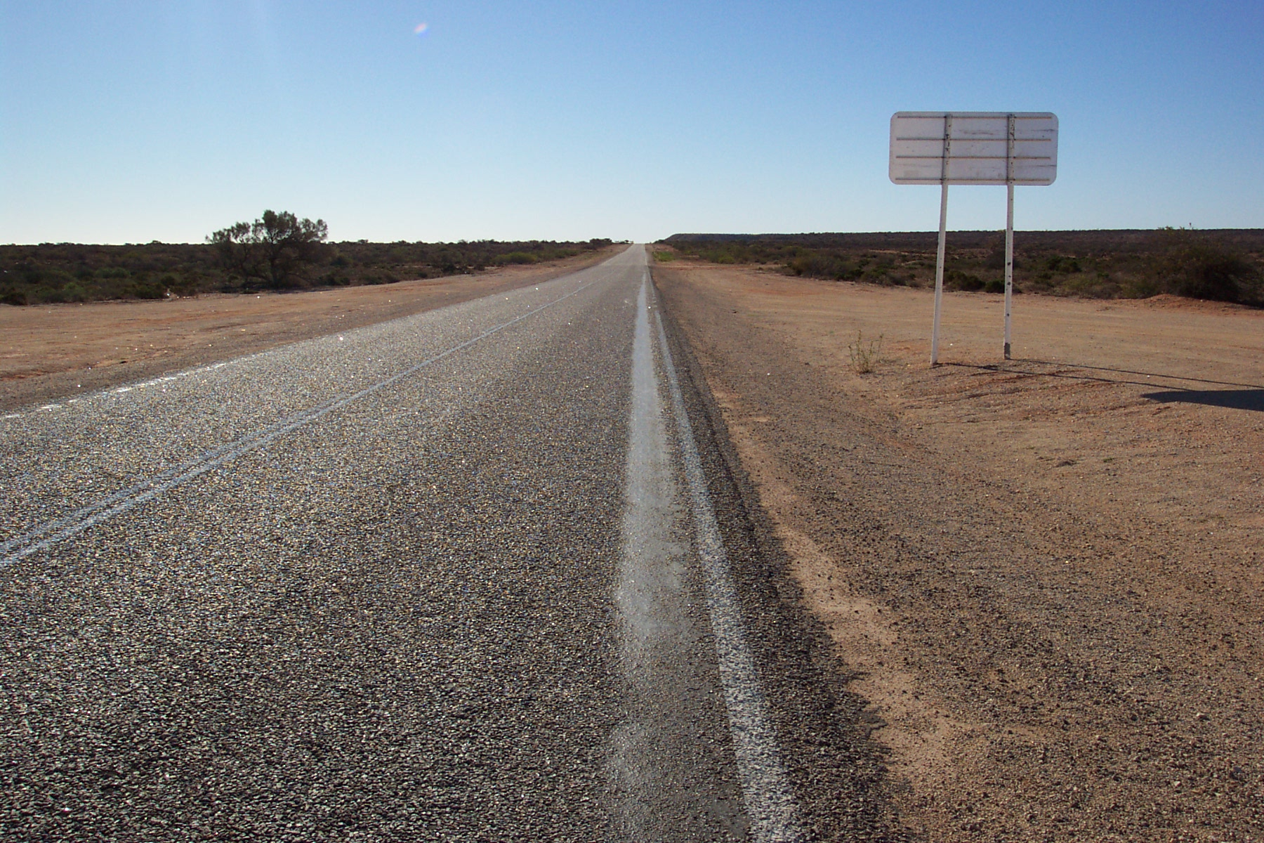 North West Coastal Highway, Western Australia, south from the 26th parallel sign about 27 km south of the Wooramel roadhouse in the Shire of Carnarvon.